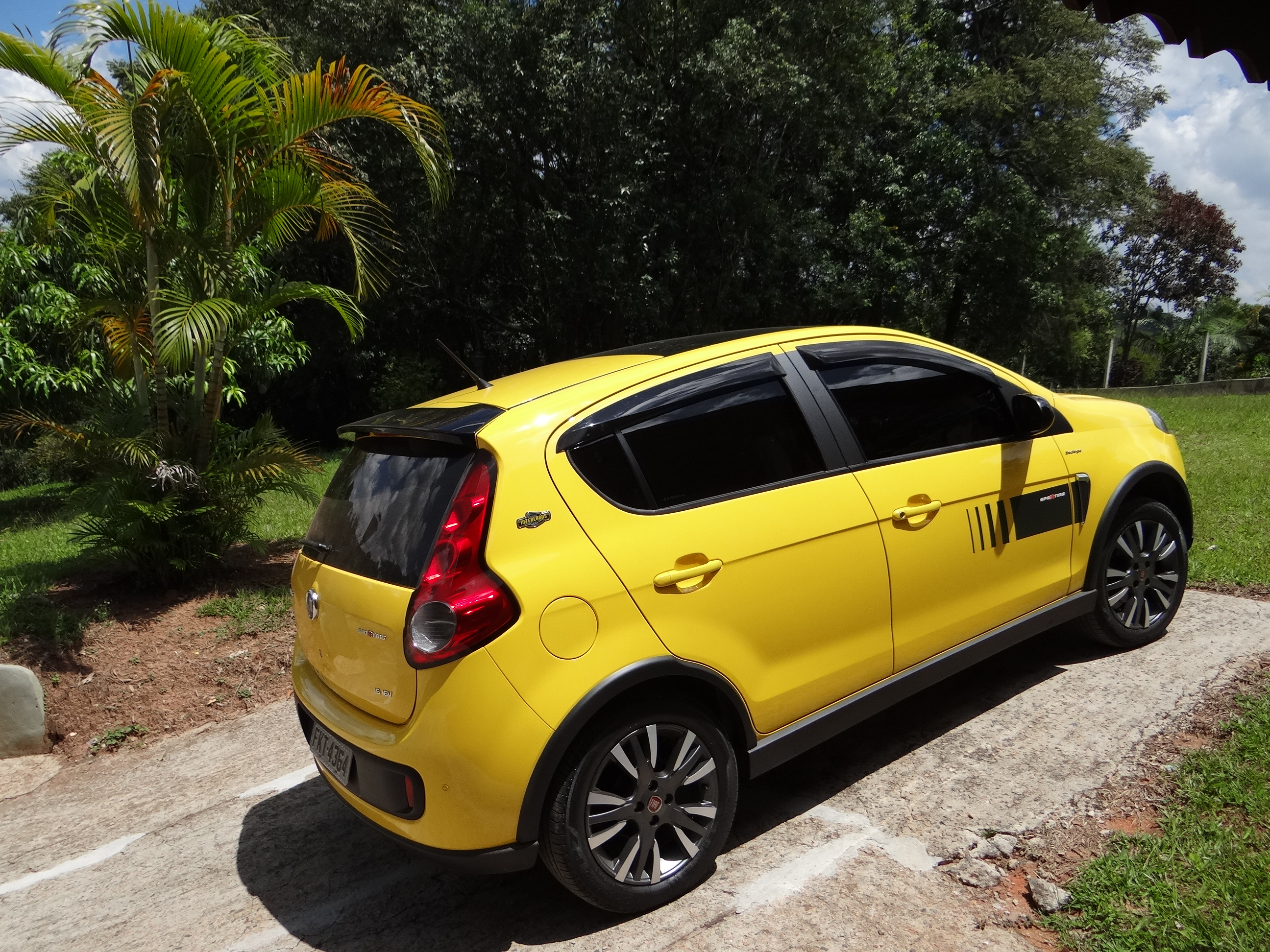 Fiat Palio Sporting 1.6 16V E.torQ Engine with Dualogic transmission. Second generation (326) back view - Brazil